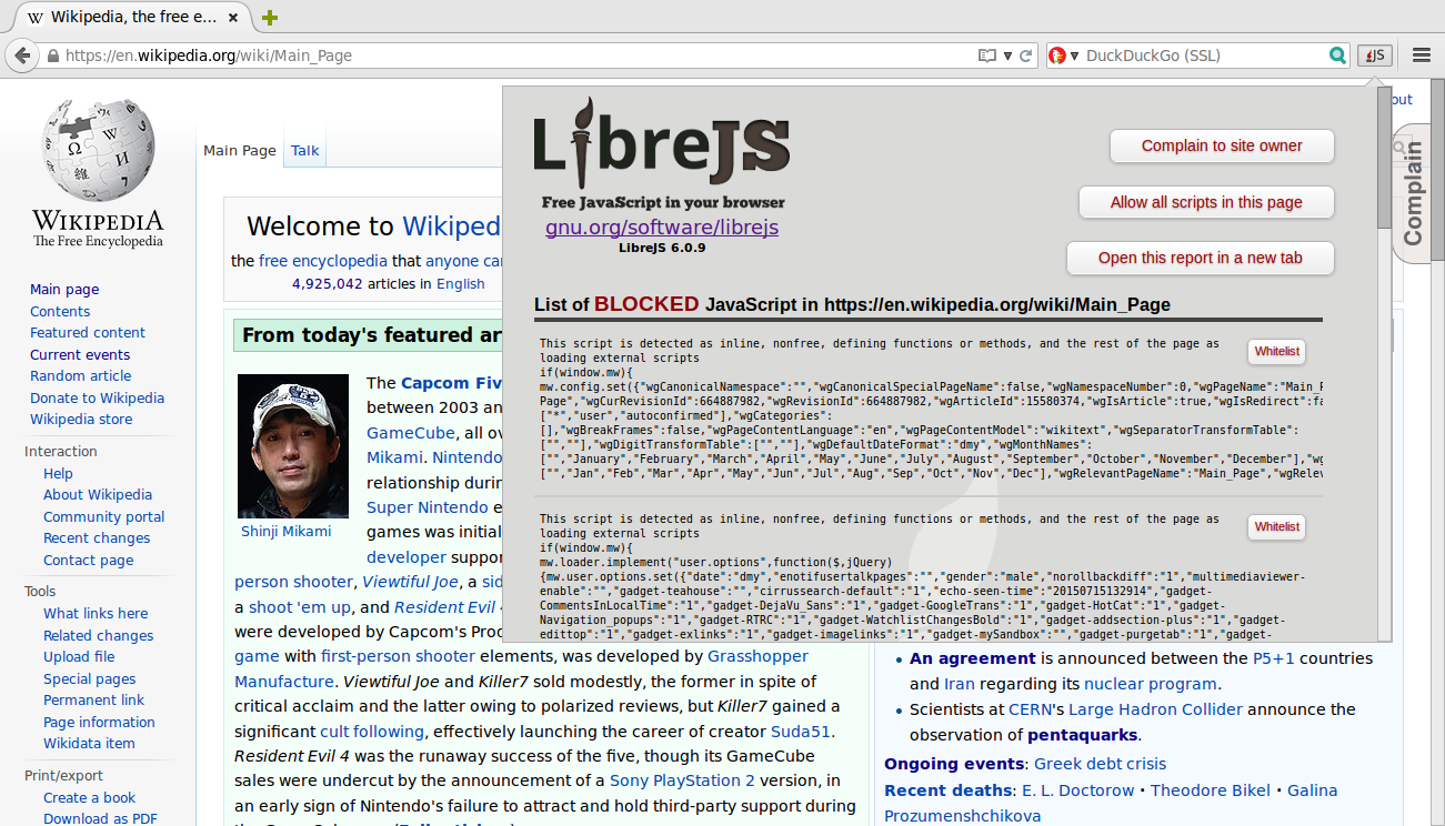 GNU LibreJS 6.0.9 showing the blocked elements on the English Wikipedia main page. Tracked in Phabricator Task T38866